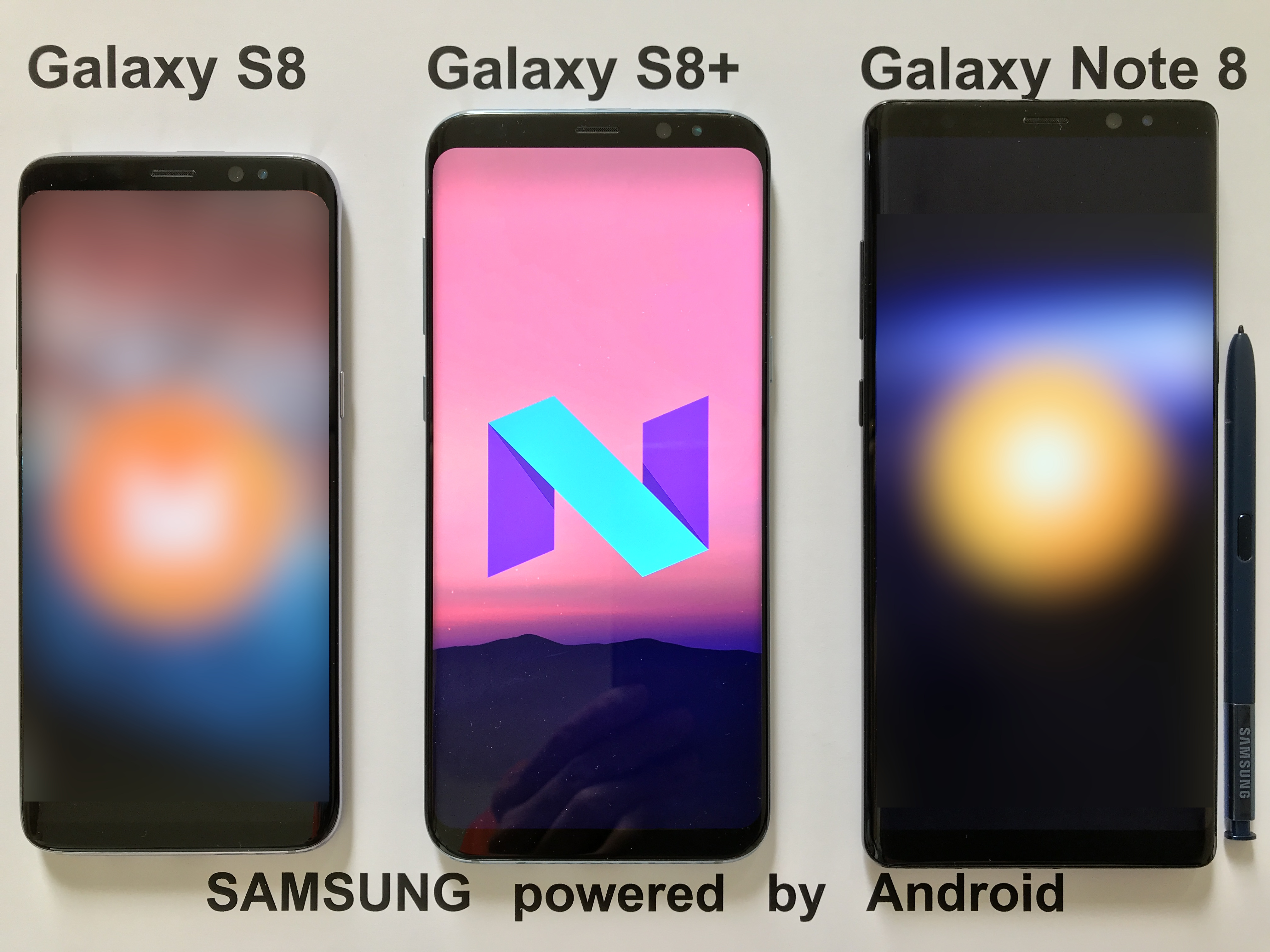 Samsung Android Smartphones (S8, S8+, Note 8)